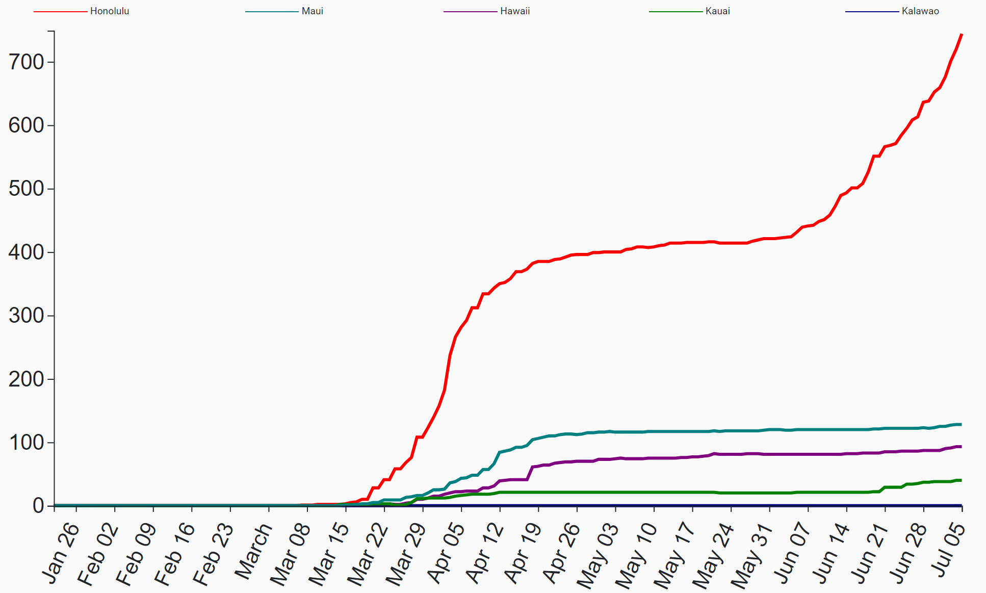 The graph represents, in Hawaii, confirmed cases (red) and deaths (green).